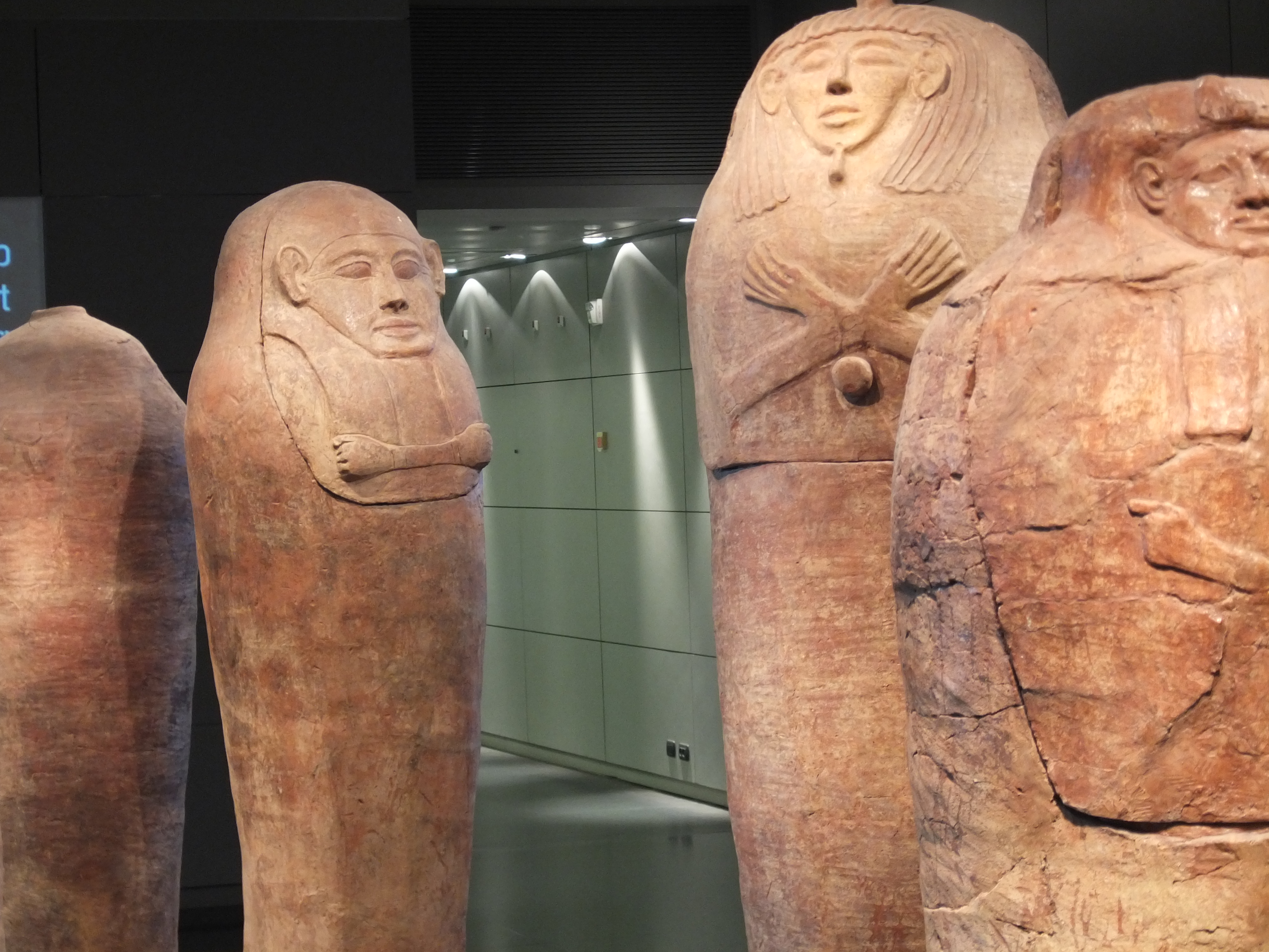 Sarcophagus of Canaanites, now at Israel Museum